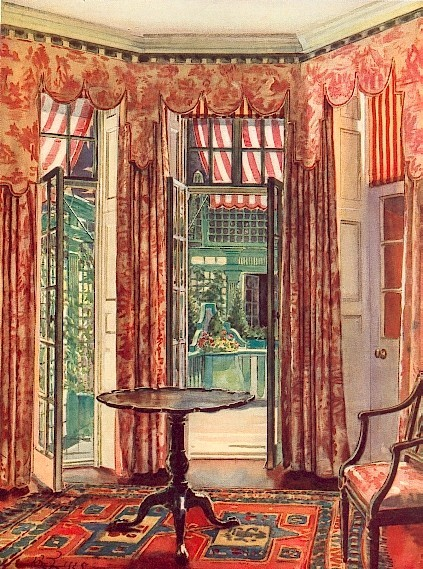 Colour and Interior Decoration, Country Life, 1926